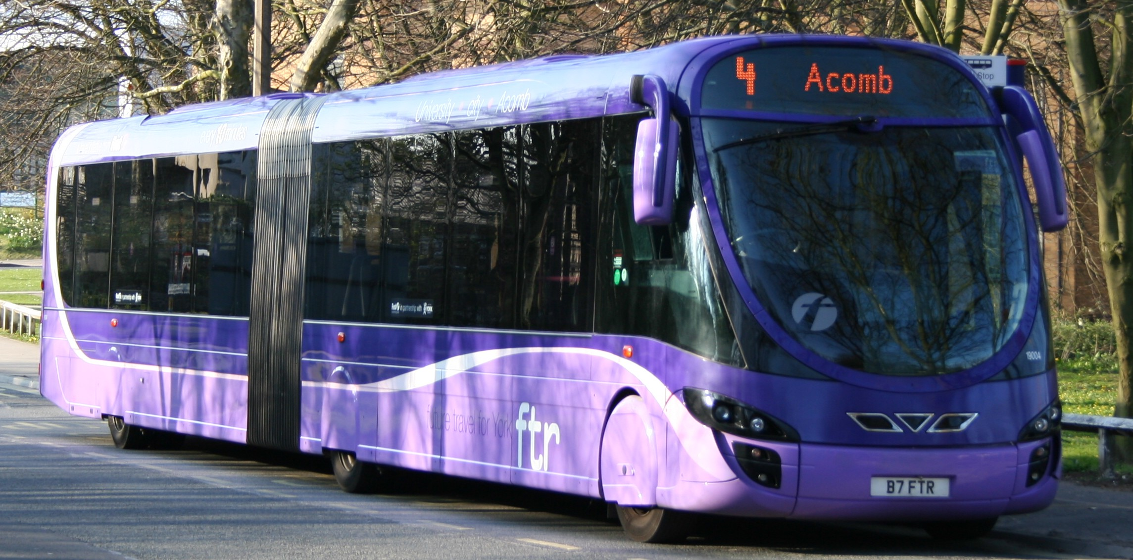 An ftr bus (#19004 reg. B7 FTR) in York, England. It is pictured at the southbound Heslington Hall bus stop on University Road at the University campus in Heslington. This is the terminus of the route – the bus is about to turn around to start a new journey to Acomb. The sign for the Department of Chemistry can be seen in the distance.